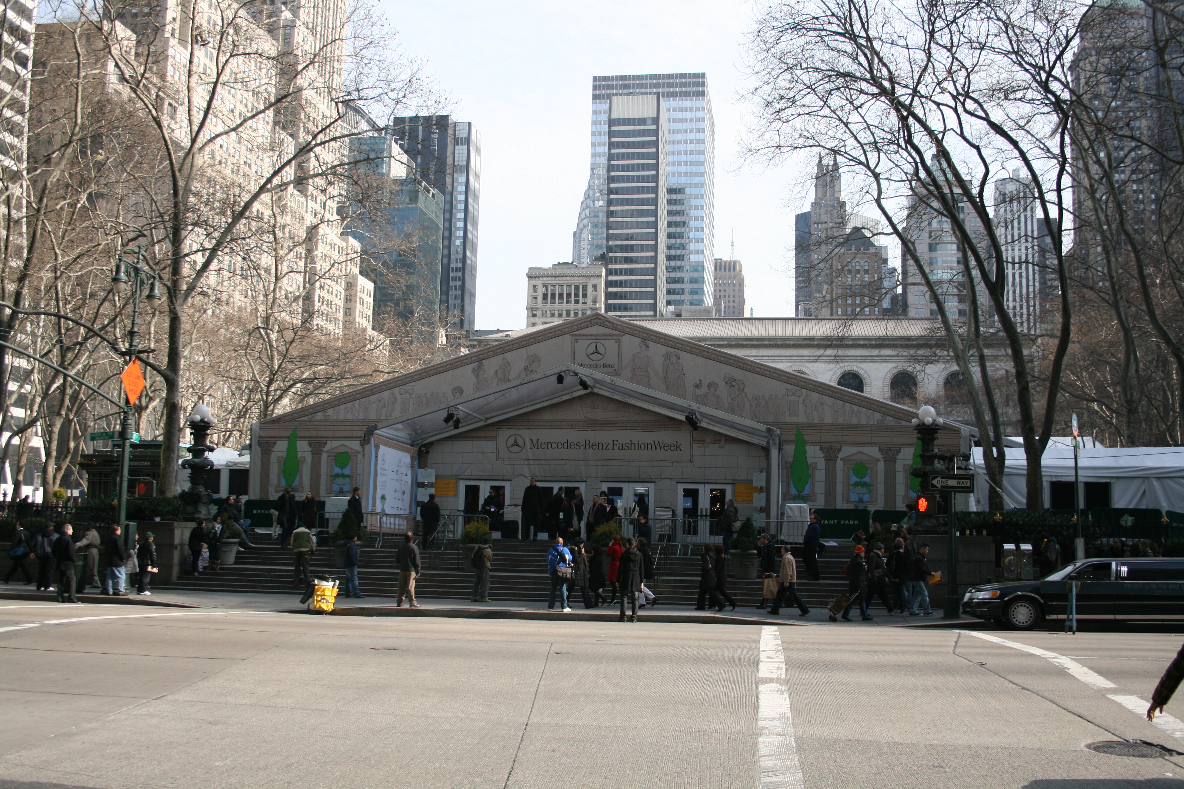 Main entrance to Bryant Park Tents, Mercedes-Benz Fashion Week